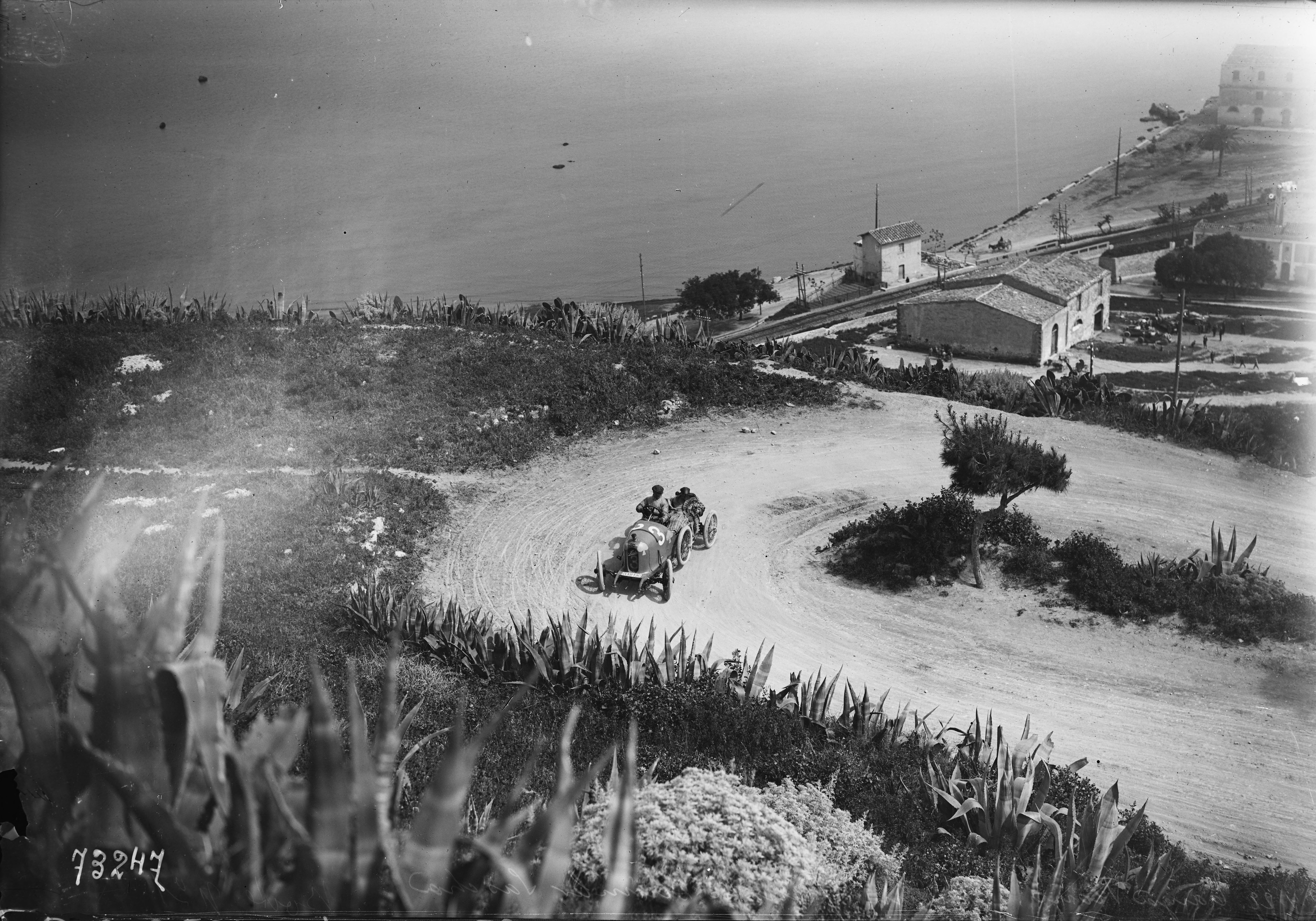 Gregor Kuhn in his Austro-Daimler at the 1922 Targa Florio.